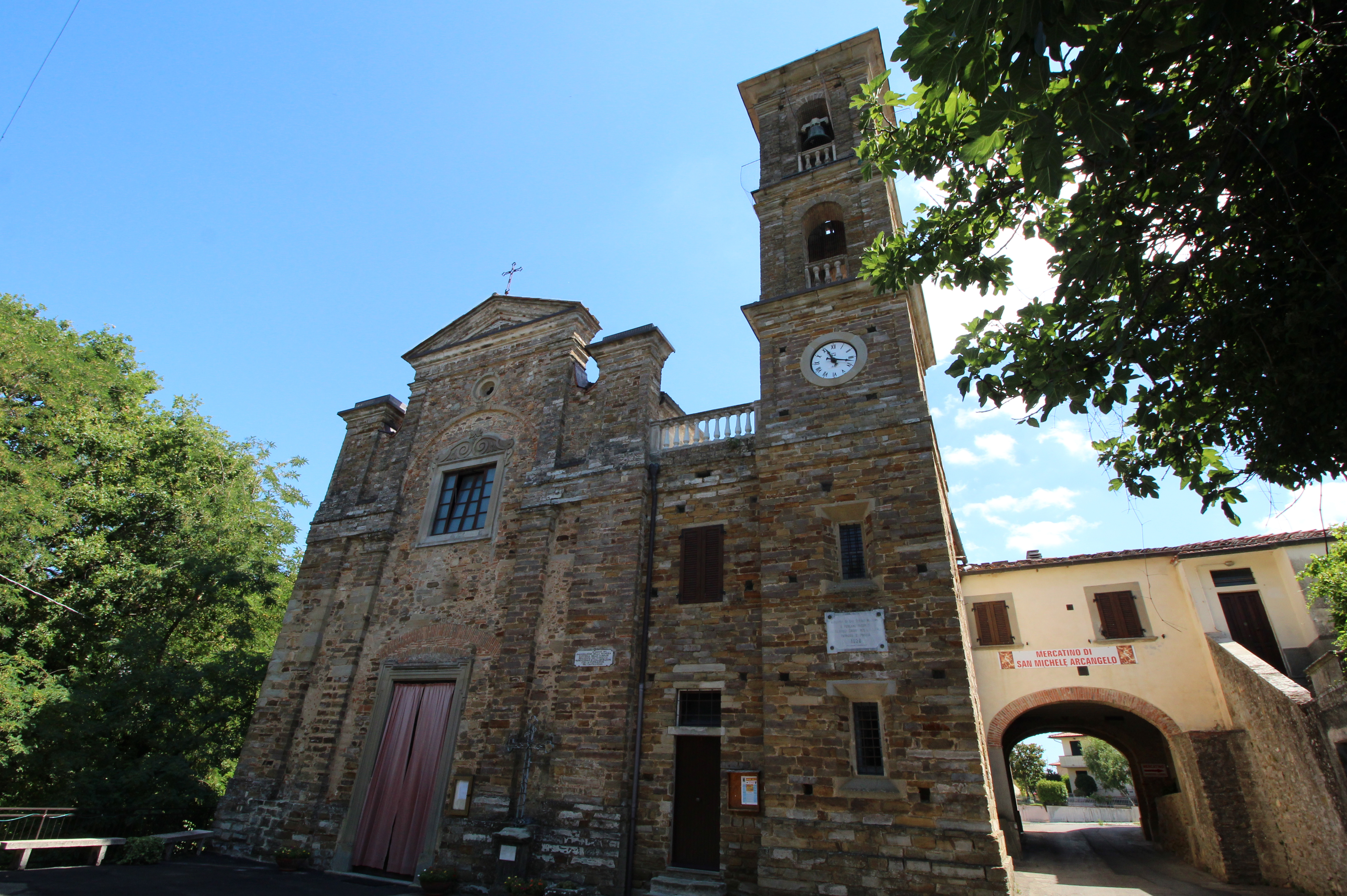 Church San Michele Arcangelo, Castelluccio, hamlet of Capolona, Province of Arezzo, Tuscany, Italy